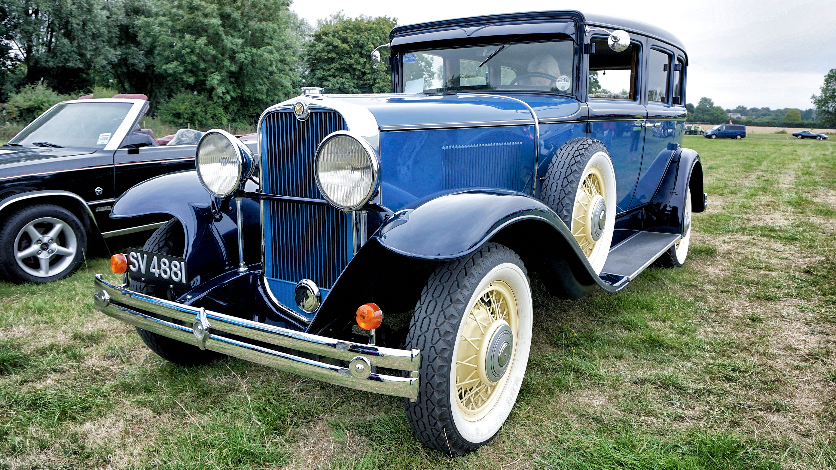 The annual Can-Am Car Club show at Wimborne. A celebration of all things "Automotive and American" plus a few British cars thrown in for good measure. 1930 Viking 4.3 litre V8 SV4881